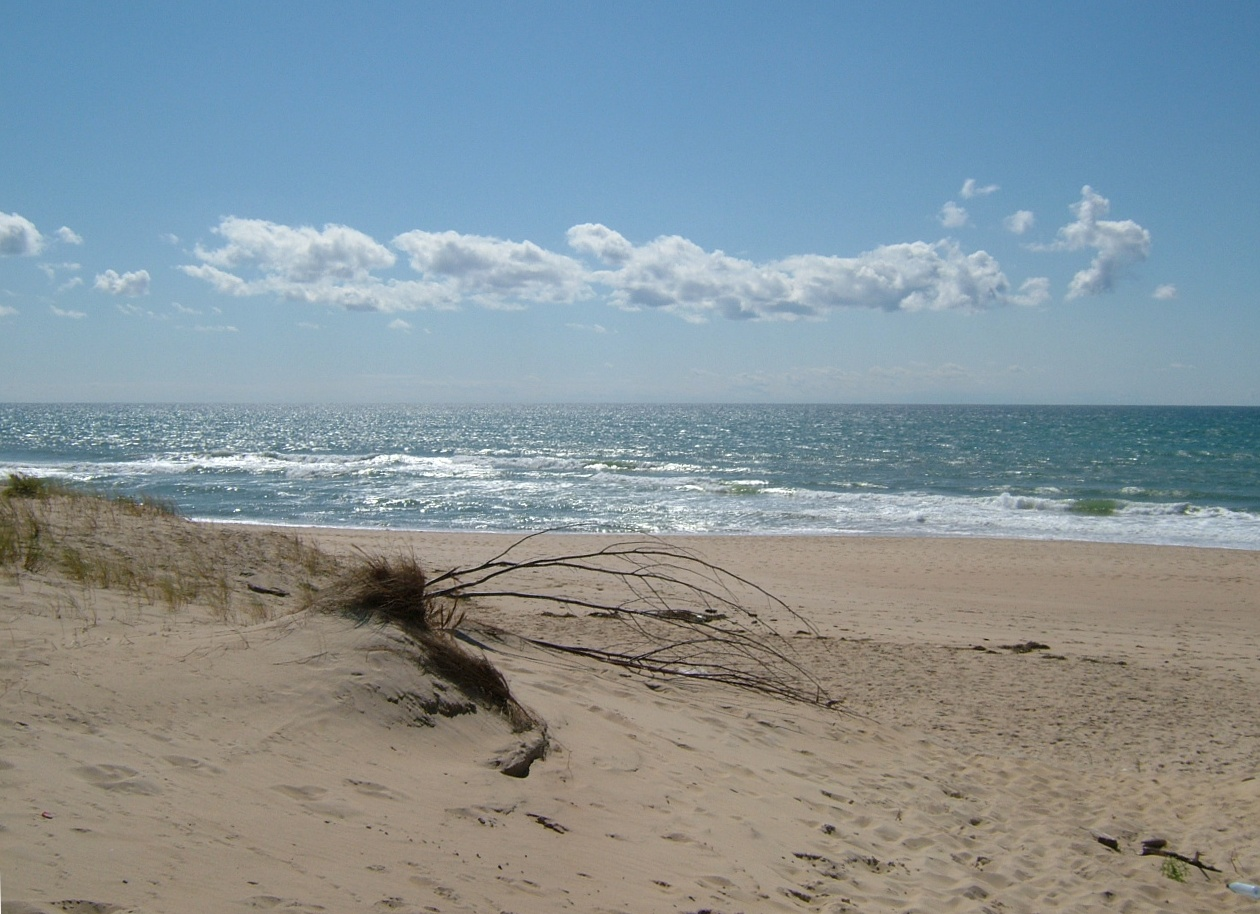 CHM-Montalivet (naturist resort) (CHM for "Centre Hélio-Marin", "center of sun and sea") is the world's first naturist holiday resort located south of Montalivet, in Vendays-Montalivet, France. The site contains an area of protected dunes that open onto the long Aquitaine beach and the Atlantic Ocean.